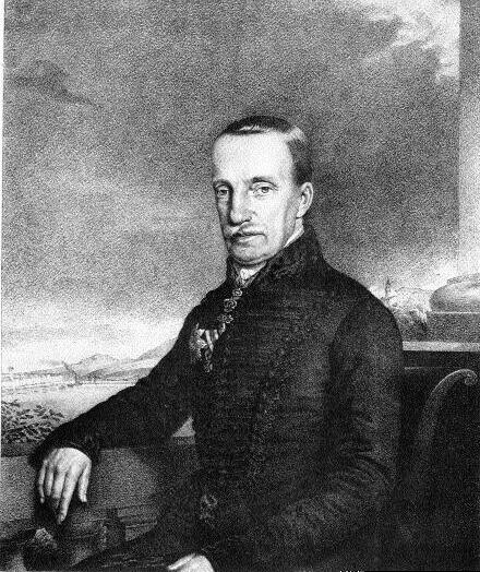 Archduke Joseph Anton Johann (Baptist) of Austria, 1776-1847, Palatin of Hungary